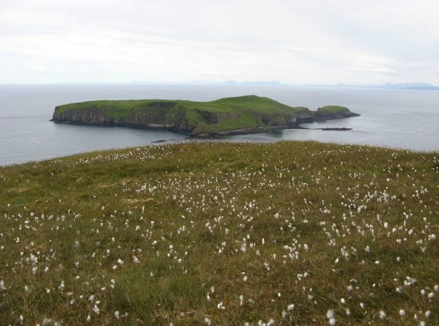 Looking east from Garbh Eilean A steep climb from the beach brings you to the top of Garbh Eilean. This view is to the east, with another of the Shiant Islands, Eilean Mhuire, in the centre of the photo.